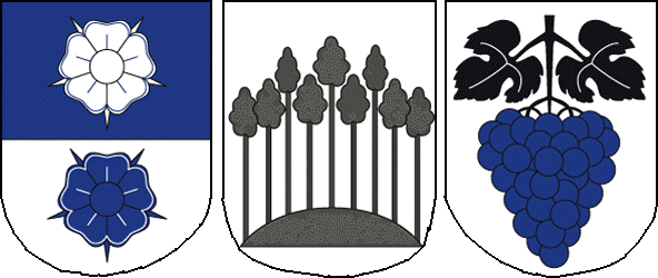 Coats of arms of Neunforn (Wilen, Oberneunforn and Niederneunforn), Canton of Thurgau, SwitzerlandEsperanto: Blazonoj de Neunforn (Wilen, Oberneunforn kaj Niederneunforn), Kantono Turgovio, Svislando